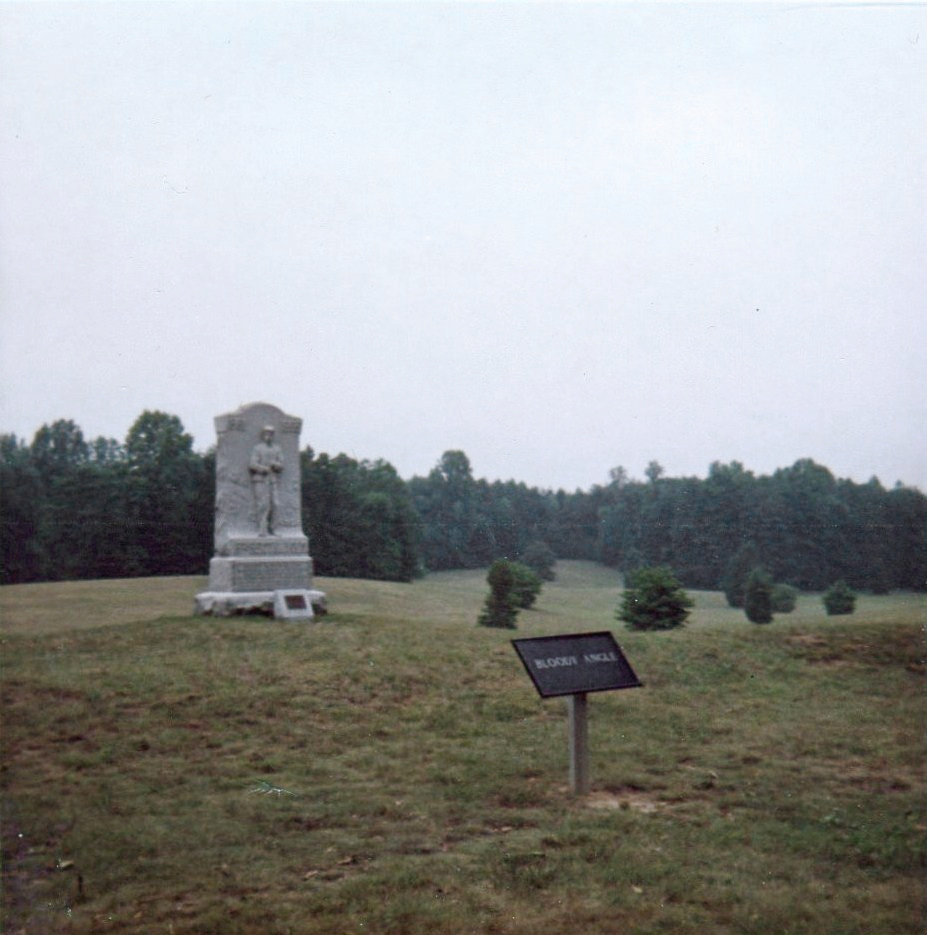 The Bloody Angle Monument, Spotsylvania County, Virginia